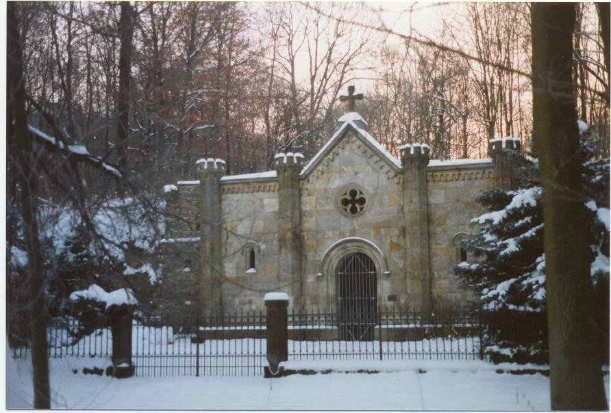 Mausoleum in Detmold, Germany.